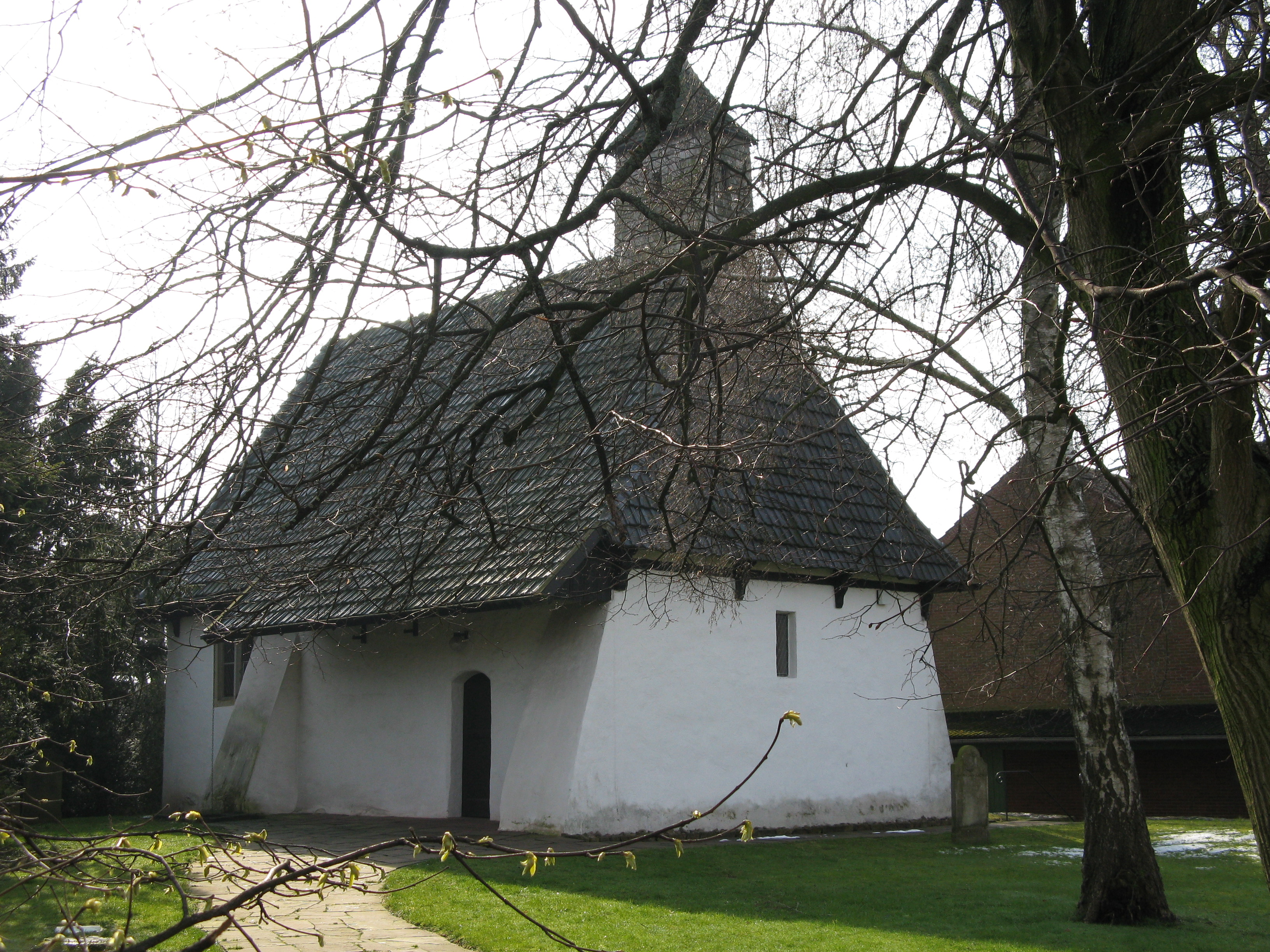 Chapel in Hille, Minden-Lübbecke, North Rhine-Westphalia, Germany.